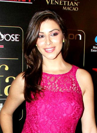 Kotak at the green carpet of IIFA Awards 2013